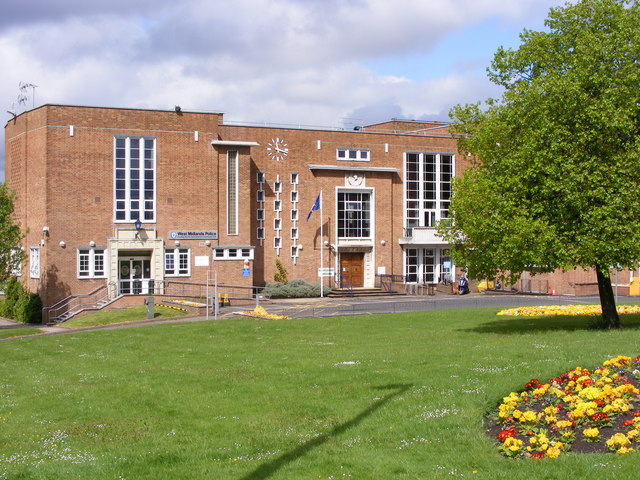 Brierley Hill Nick The Police Station off the High Street.